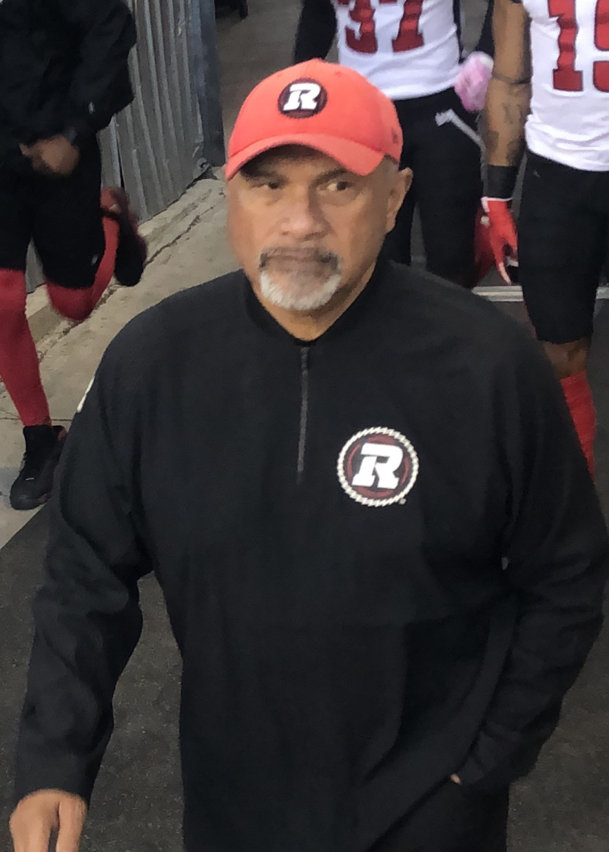 Joe Paopao, Assistant Coach for the Ottawa Redblacks.